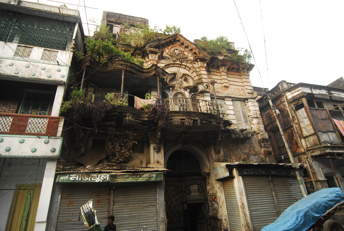 This is Boro Bari. It was constructed in early 1930's by Prashanna Kumar Das. Who was a social worker, businessman better known as Philanthropist and of course a proud member of Das family. But during 1947 he left behind his most of the properties Boro-Bari is one them. But later on it was bought by a gentleman from Barisal. But the present owner tried to demolish this beautiful vestige.It has a sign of Rococo Architecture design. Its gorgeous terracotta design attracts people from far distance.